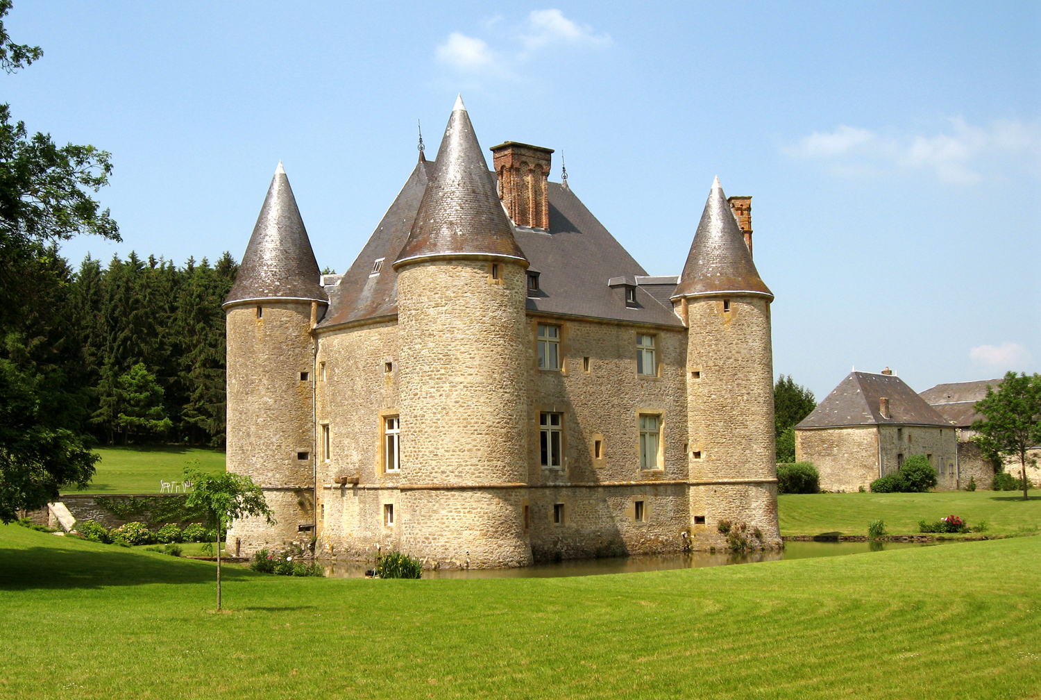 South-west façade of château de Landreville on may 2007